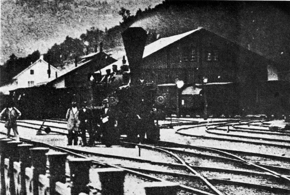 Former steam locomotive Württemberg II at Schweizerische Centralbahn in Olten.